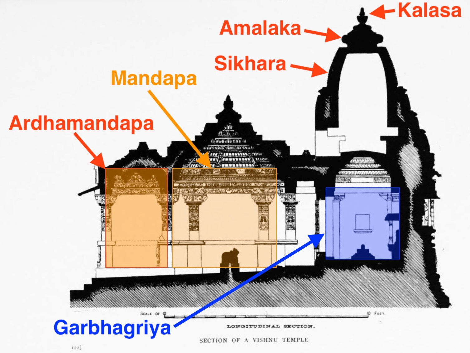 This is a simple Hindu temple with Nagara architecture. Some key sections marked, many sections are not marked. The Antarala is between the mandapa and the grabhagriya. On outer walls are niches which would typically show sculpture, reliefs or steles narrating Hindu legends, texts or henotheistically show deities from various traditions of Hinduism such as Vaishnavism, Shaivism, Shaktism and Sauraism. Some temples may also show major saints, scholars or regionally popular spiritual leaders. The pillars and ceilings are generally carved with symbolic motifs and friezes from Hindu texts / fables, many showing themes of dharma, artha, kama and moksha. The grabhaghriya (sanctum, adytum) typically is simple with a murti whose iconography is filled with symbolism. A Hindu would normally be able to visually read and connect with the friezes, circumambulate the sanctum and then complete the darshana of the sanctum. This is a derivative work on the following wikimedia commons file available with creative commons license: Architecture of a Vishnu temple, Nagara style, 1915 sketch.jpg